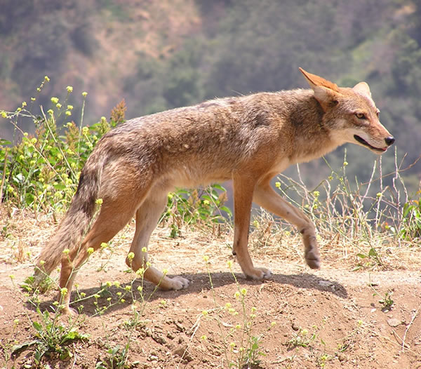 California Valley Coyote (Canis latrans clepticus) in the San Gabriel Mountains, California, USA. Taken along highway 39 between San Gabriel and Morris Reservoirs.